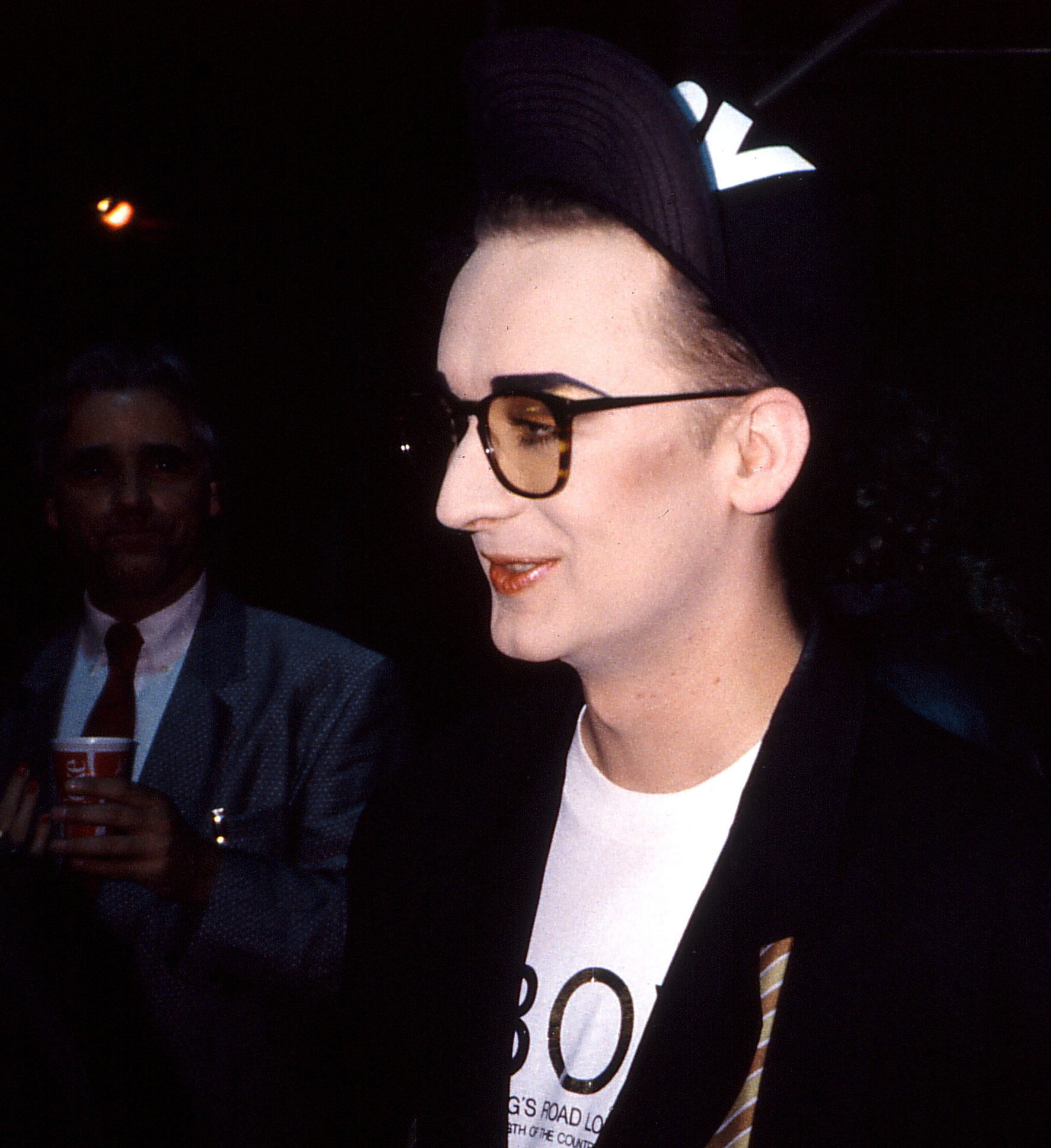 Boy George at FormulaEins party German Television 1988